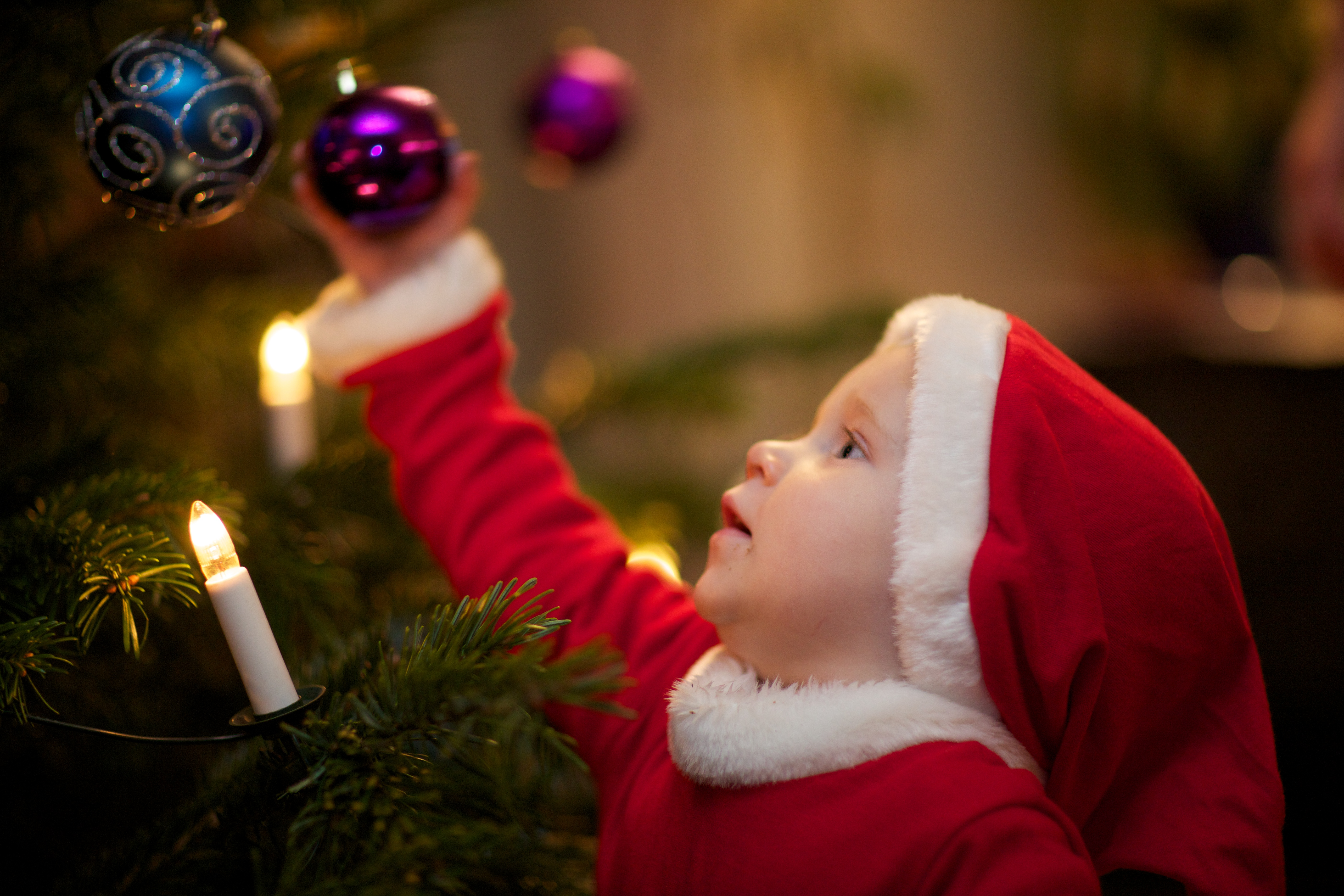 Decorating the Christmas tree